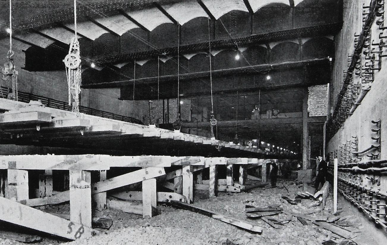 Our Catalogue Reference: ZSPC 11/256 Description: The tracks suspended above the trestles ready for the removal of the latter Date: c 1946 Images reproduced by permission of London Transport Museum © Transport for London